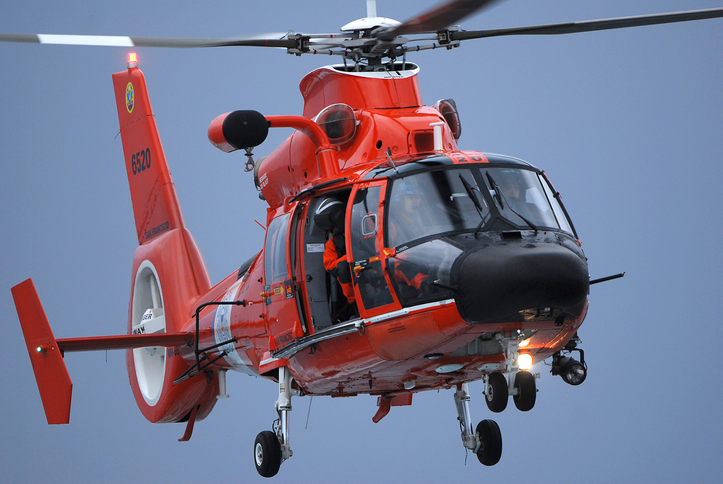 081214-N-4856N-071 PACIFIC OCEAN (Dec. 14, 2008) A Coast Guard MH-65 Dolphin helicopter arrives to evacuate a merchant sailor who was injured on the Liberian cargo ship "Marie Rickmers" from the aircraft carrier USS Abraham Lincoln (CVN 72). The Sailor was taken to Abraham Lincoln the previous night by a San Diego Coast Guard helicopter and medically stabilized before being flown to San Francisco for treatment. Abraham Lincoln is underway conducting training and carrier qualifications. (U.S. Navy photo by Mass Communication Specialist Seaman Colby Neal/Released)